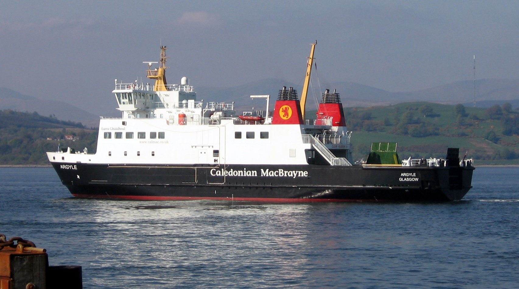 The Caledonian MacBrayne ferry MV Argyle off Gourock pierhead before entering service.